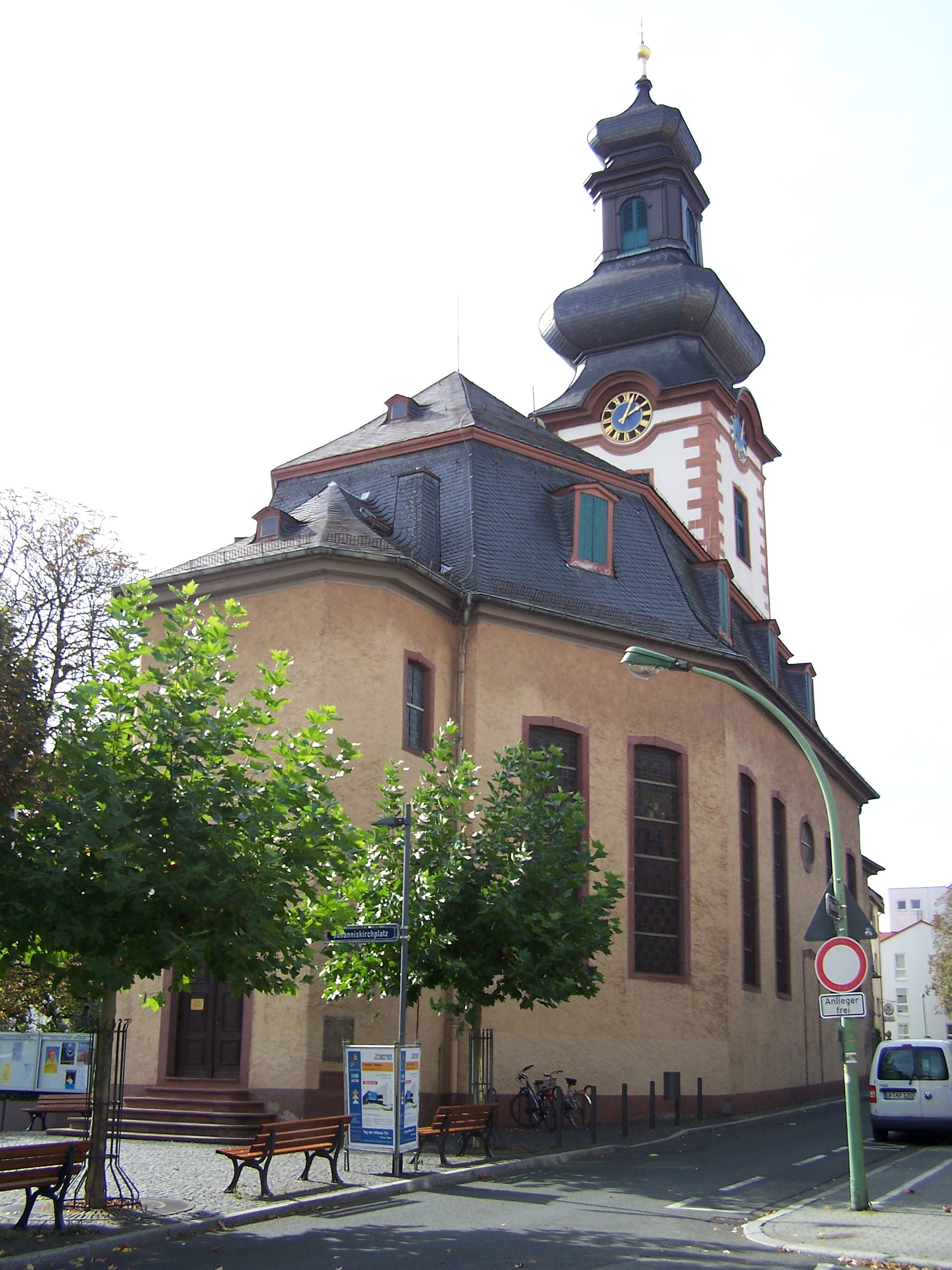 Church of Johannes in Frankfurt am Main-Bornheim, seen from east